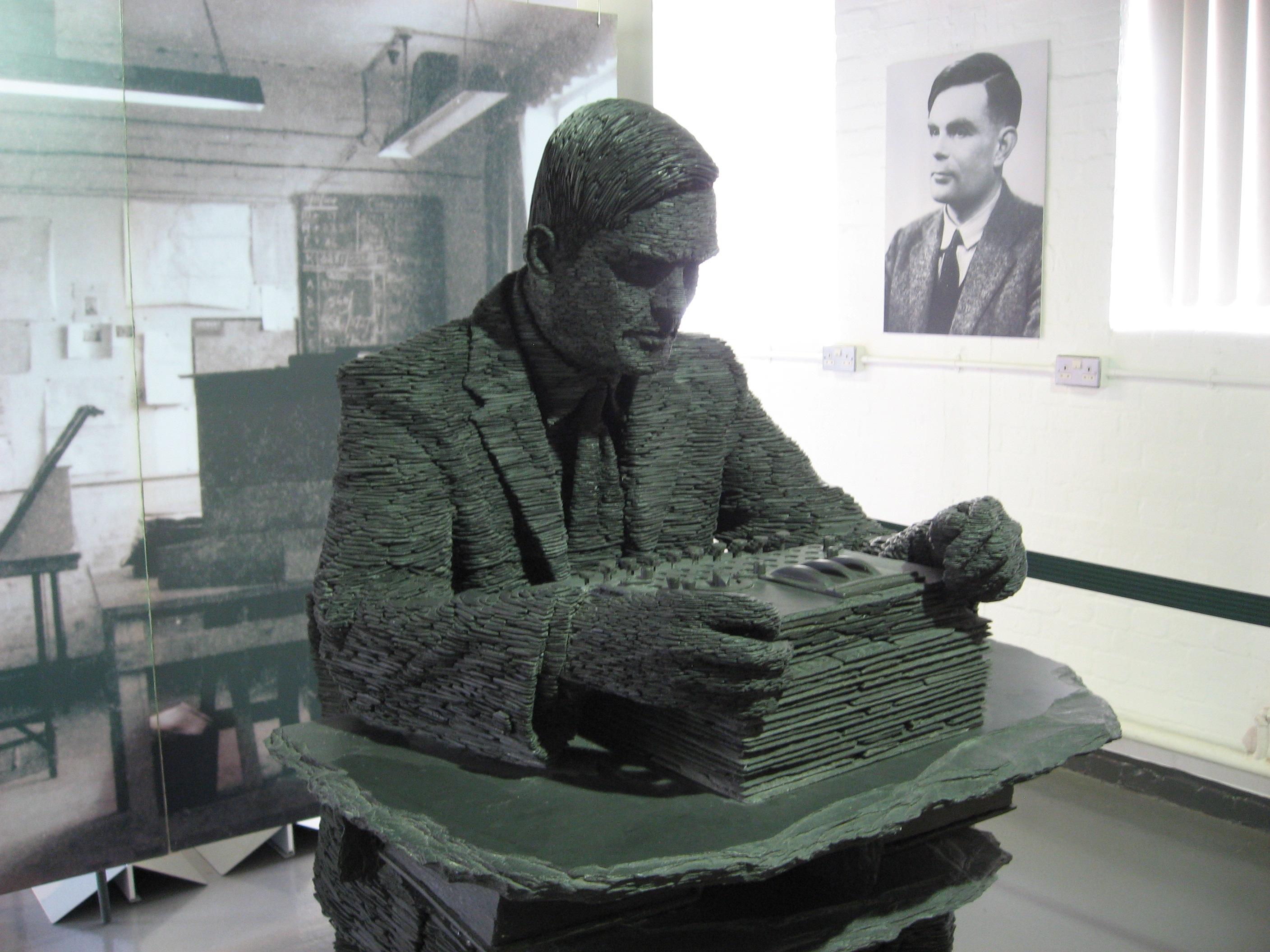 The 1.5 -ton statue of Alan Turing, by Stephen Kettle commissioned by the American billionaire Sidney Frank. This statue at Bletchley Park is made of about half a million pieces of slate quarried in Wales. People who knew him say this takes their breath away. Unfortunately, you can't see his coffee cup under his desk.